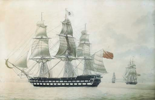 HMS "Vengeur" in Naples Bay with the Neapolitan flag at her main masthead , 1820, 1820, by Nicolas S. Cammillieri Medium: Pen and Pencil and Ink Size: 47.7 x 66.3 cm. (18.8 x 26.1 in.)